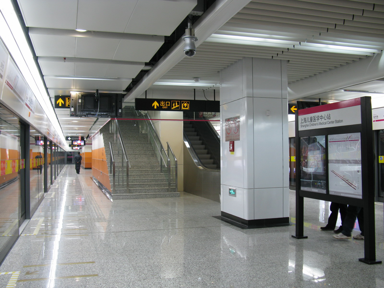 上海兒童醫學中心站-6號線月台 Line 6 Platform of Shanghai Children's Medical Center Station